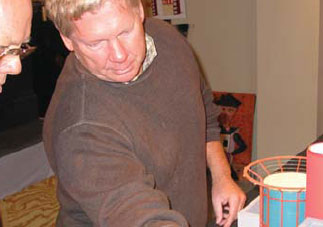 Wright Massey (b. June 21st, 1953) is an American businessman and entrepreneur most widely known as the Vice President of Development of Starbucks, the Director of Design at The Disney Store, and designer of the famous Coca-Cola Sign in Times Square.